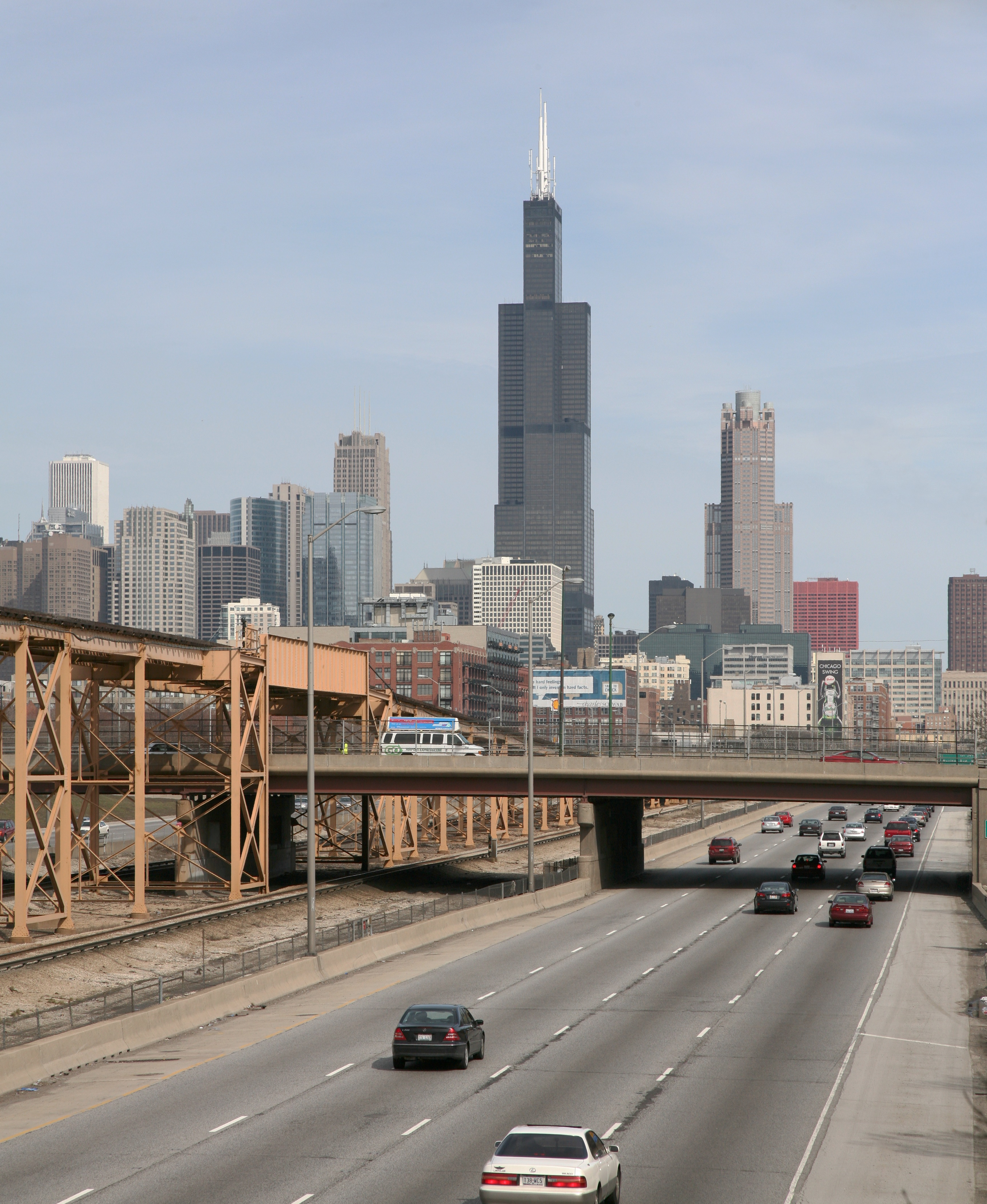 Eisenhower Expressway This image was created with Hugin.